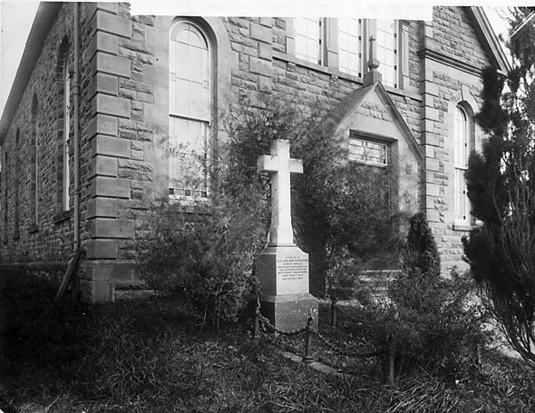 1 negative : glass, dry plate, b&w ; 16.5 x 21.5 cm.